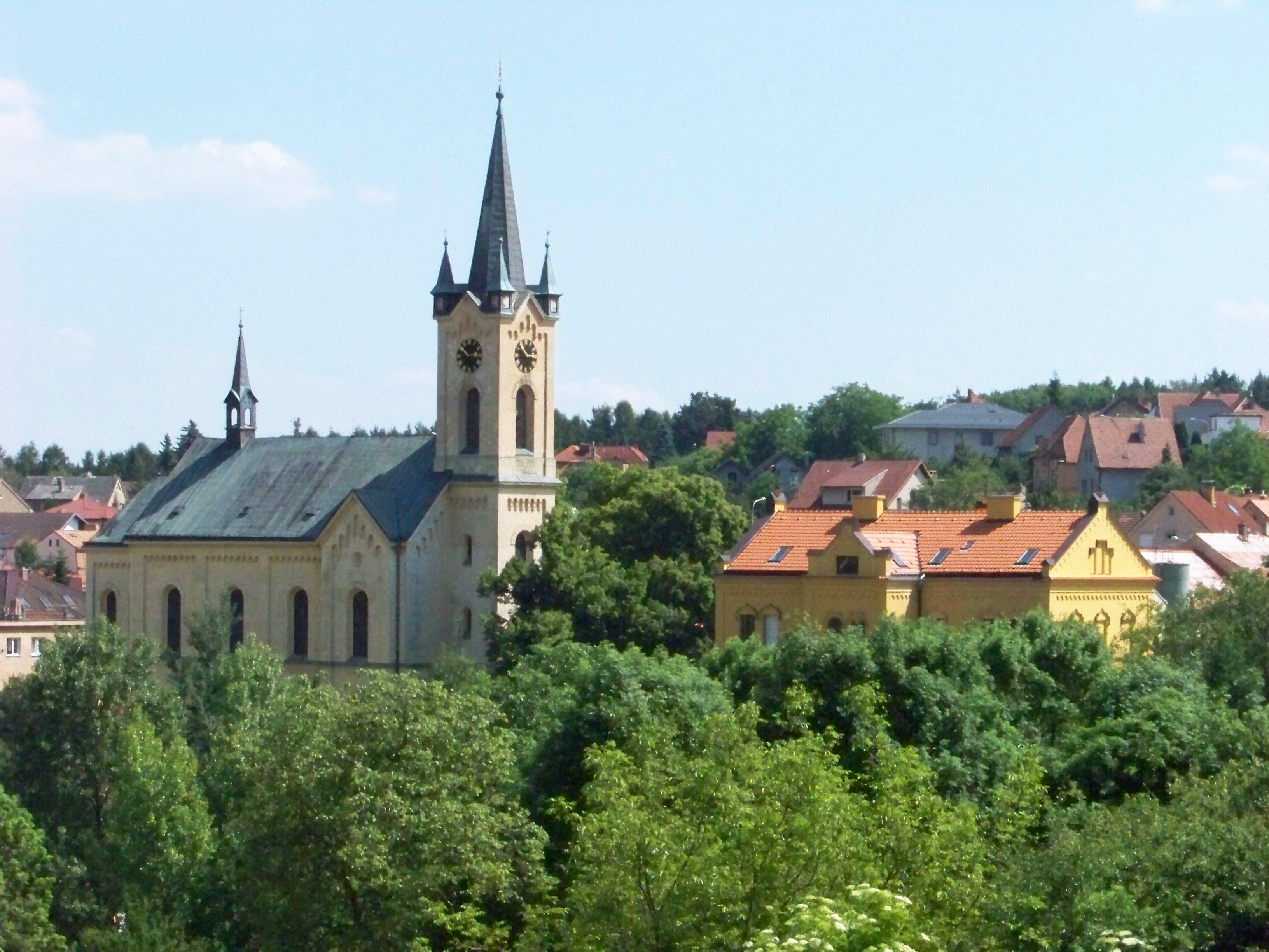 Prague-Nebušice, the Czech Republic. A church and a school seen from Tuchoměřická street. - Google Maps - Google Earth